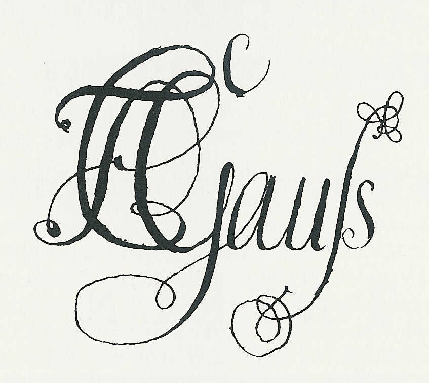 Signature of 17-year-old Gauß of about 1794